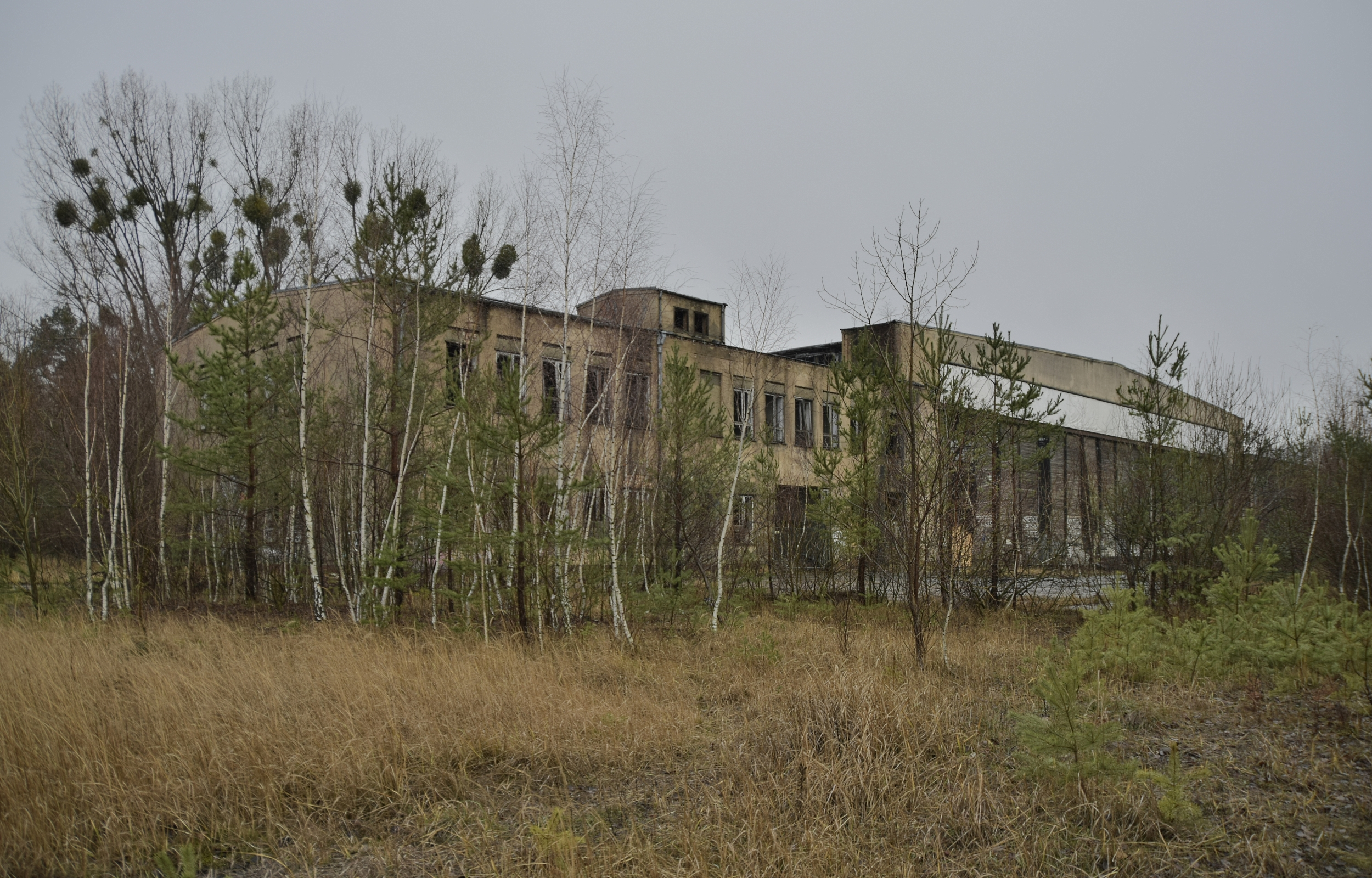 An abandoned hangar complex near Oschatz (Saxony) that was used by the Soviets during the Cold War.